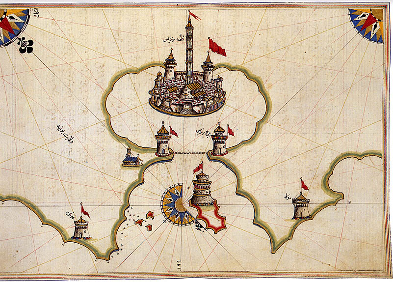 Brindisi in Italy on the Kitab-Ä± Bahriye (Book of Navigation) of Piri Reis